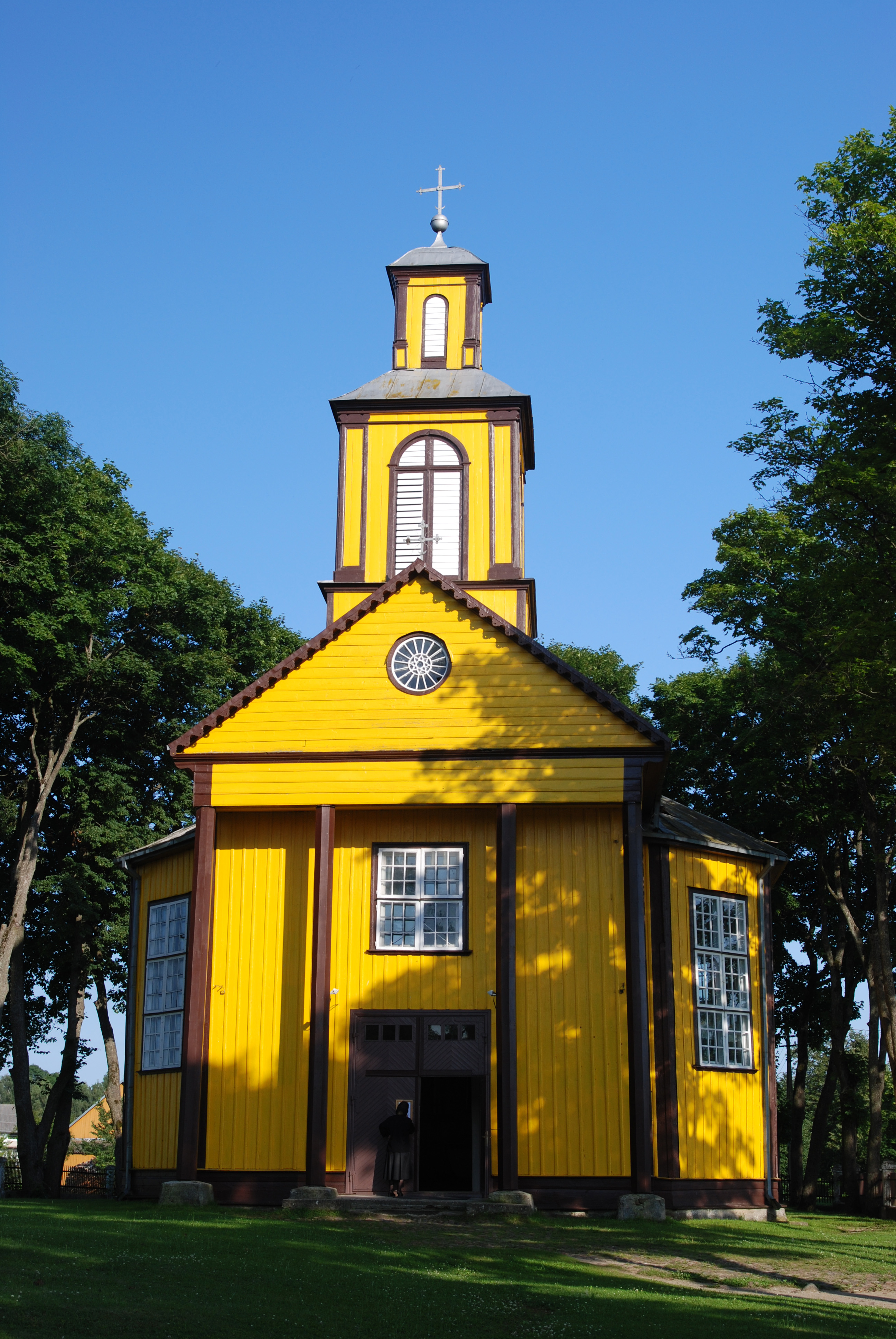 This photo from Podlaskie Voievodeship was taken during Polish Wikiexpedition 2009 set up by Wikimedia Polska Association. The making of this document was supported by Wikimedia Polska. Kosciół na Litwie okolice miasta Lozdziej